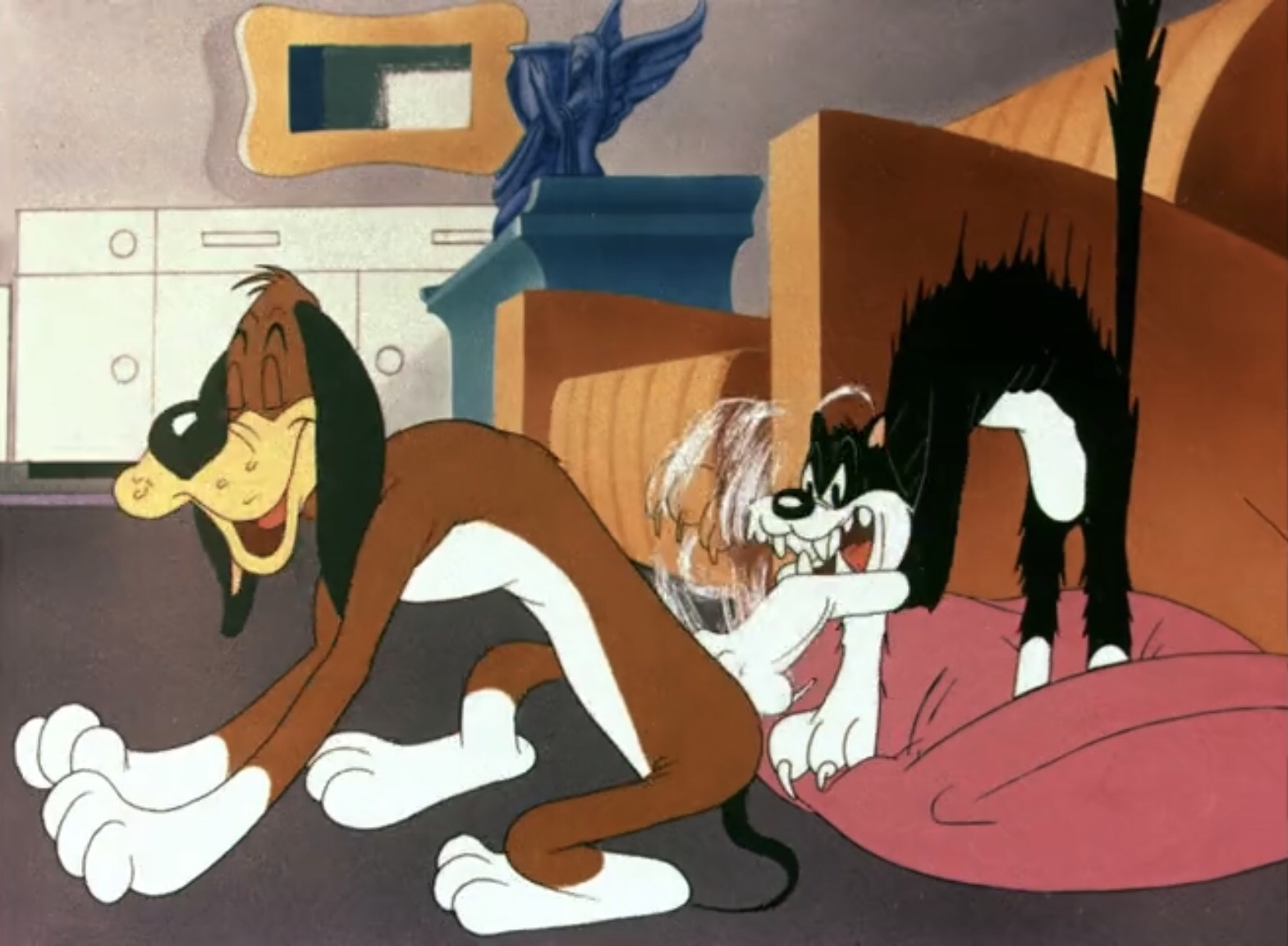 An Itch in Time is a cartoon of the public domain in 1967.